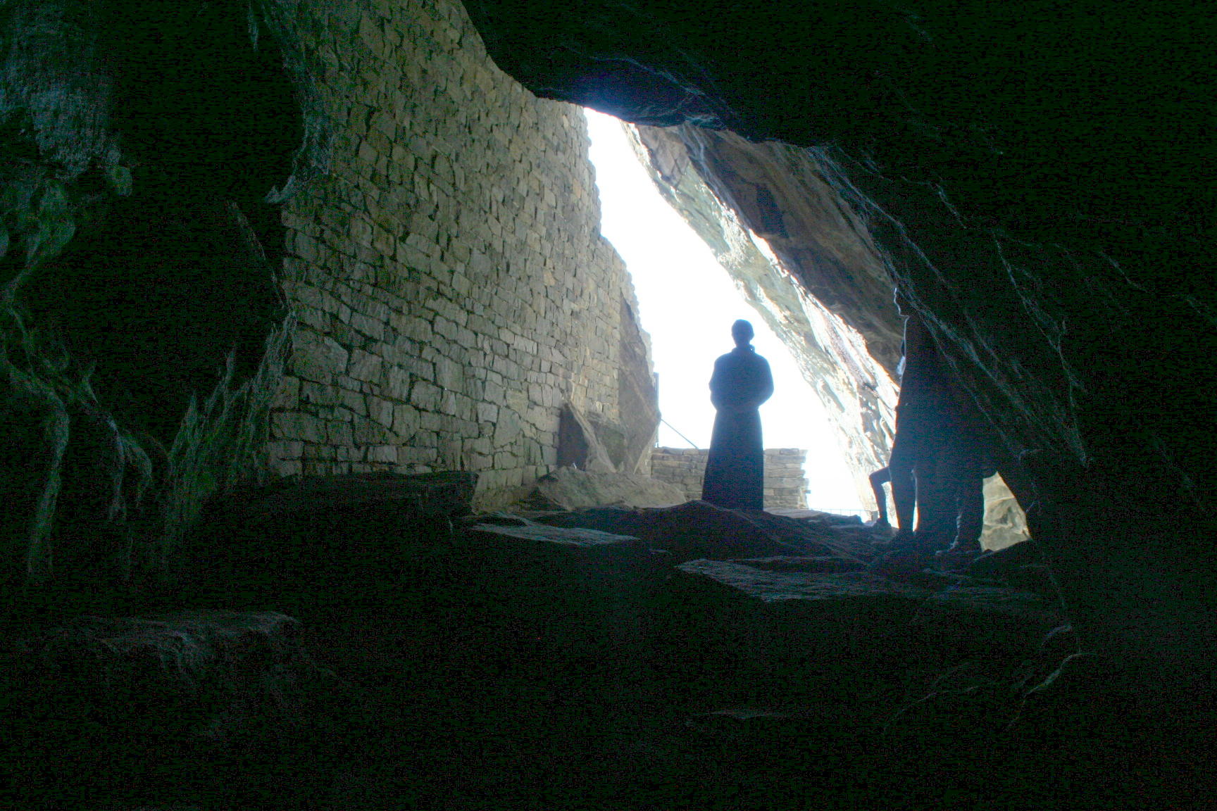 Selje abbey: Sunniva's cave and remains of Mikealskirke